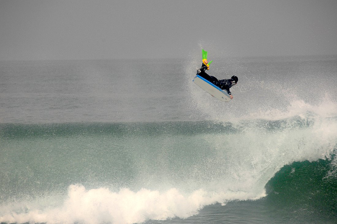 Brazilian bodyboarder, Francirley Ferreira